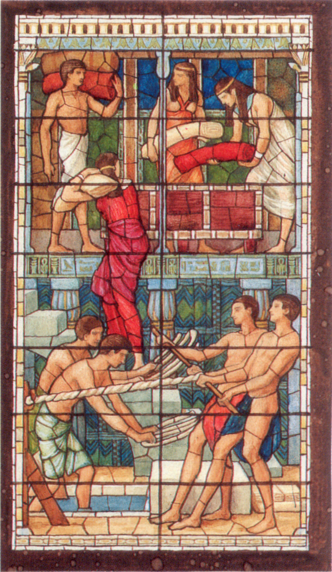 Modello or cartoon for three-panel stained glass window Domestic Arts in Ancient Egypt for the Household Sciences building of the University of Toronto. Right panel "Beating Flax and Storing Cloth", one-inch scale, by Henry Holiday, watercolour and gouache over graphite with opaque white on cream wove paper. Now in the Royal Ontario Museum.